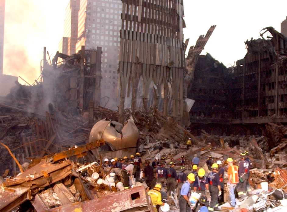 Cropped, Color adjusted version of FEMA - 3921 - Photograph by Andrea Booher taken on 09-16-2001 in New York.jpg